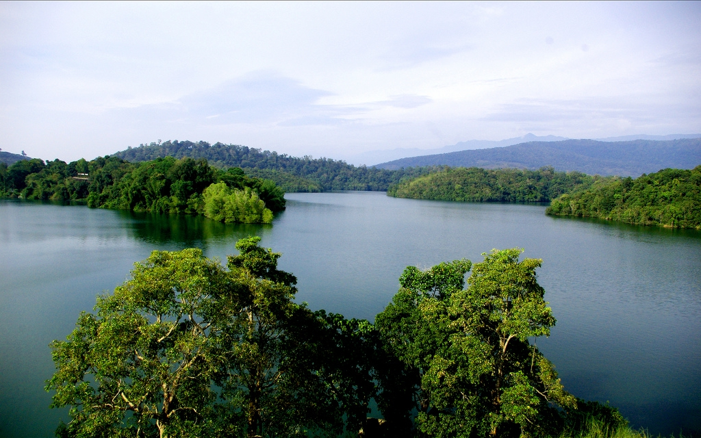 As on Flickr page:Neyyar dam is a dam in Thiruvananthapuram district of Kerala, South India, located only 32 km east of Trivandrum.It was established in 1958 and is a popular picnic spot. Lying against the southern low hills of the Western Ghats, Neyyar Dam has a beautiful lake. Wild life includes gaur, sloth bear, Nilgiri Tahr, jungle cat and Nilgiri langur, wild elephants and sambar deer.